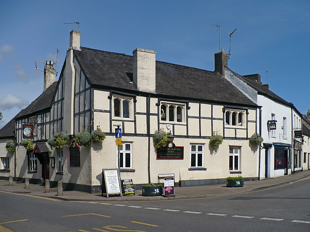 Ye Olde Bull Inn, High Street, Caerleon Dating from the 16th century but much altered.